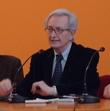 Mimmo Liguoro during Galassia Gutenberg's book fair